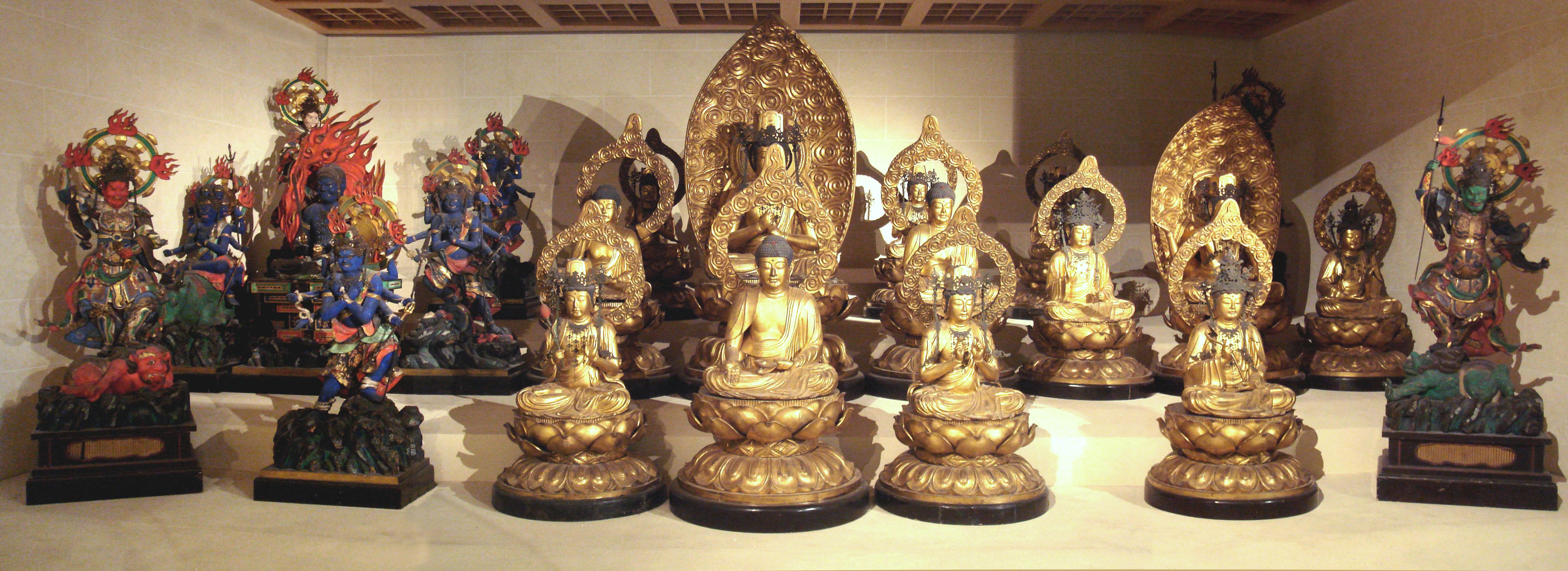 Buddhist_Pantheon, Musee Guimet